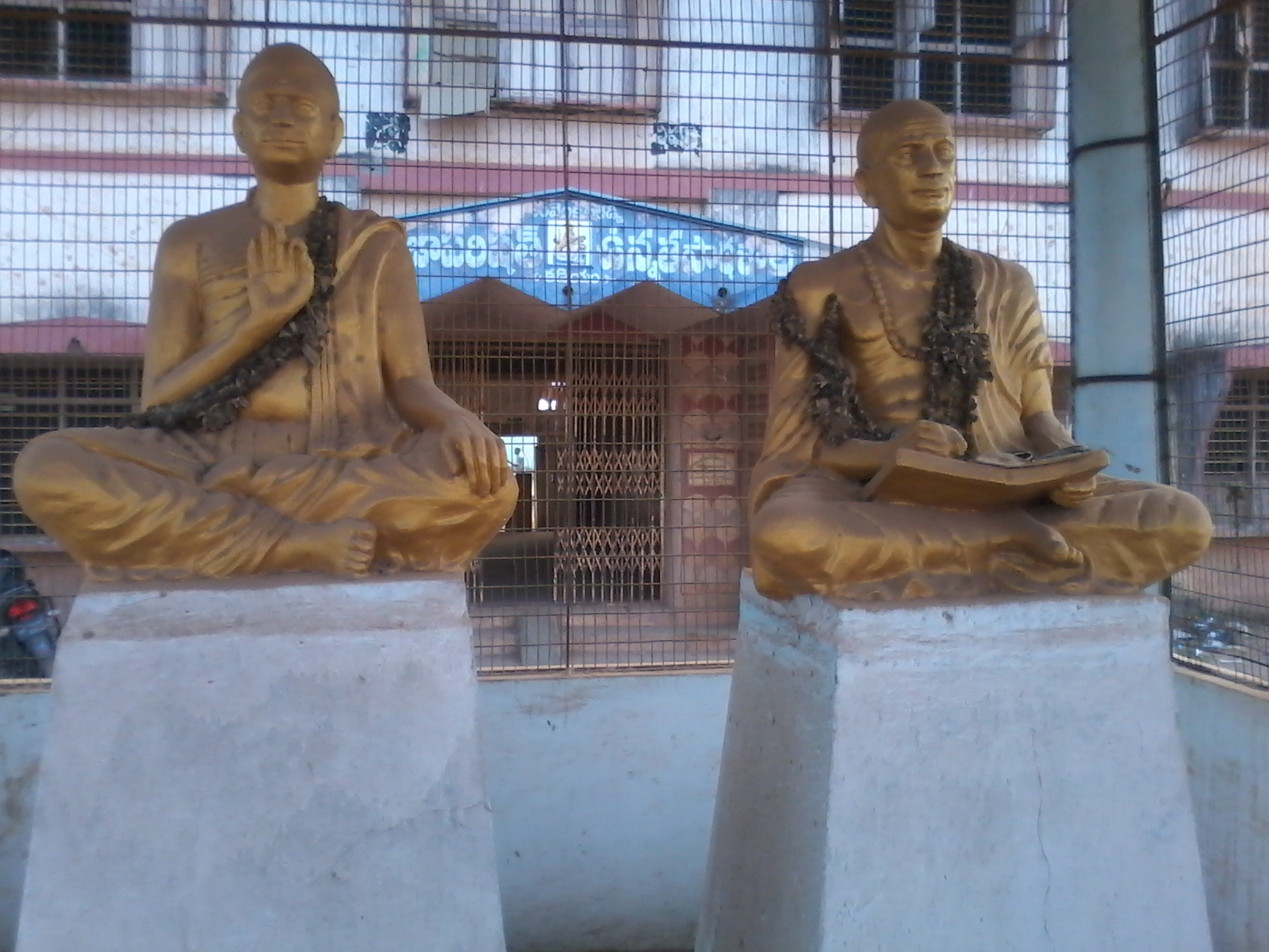 statues of tirupati venkata kavulu at z.p.high school ground, kadiyam